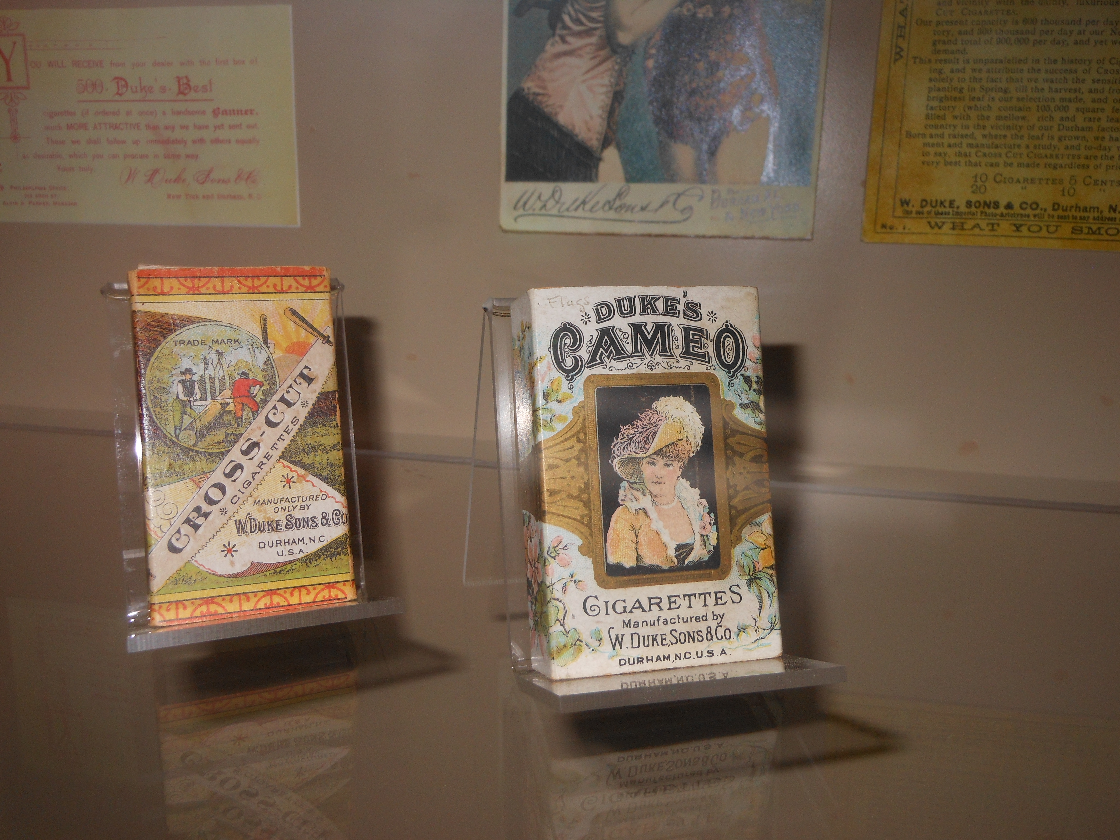 classic cigarettes produced by the Duke family and the American Tobacco Company in Durham, NC